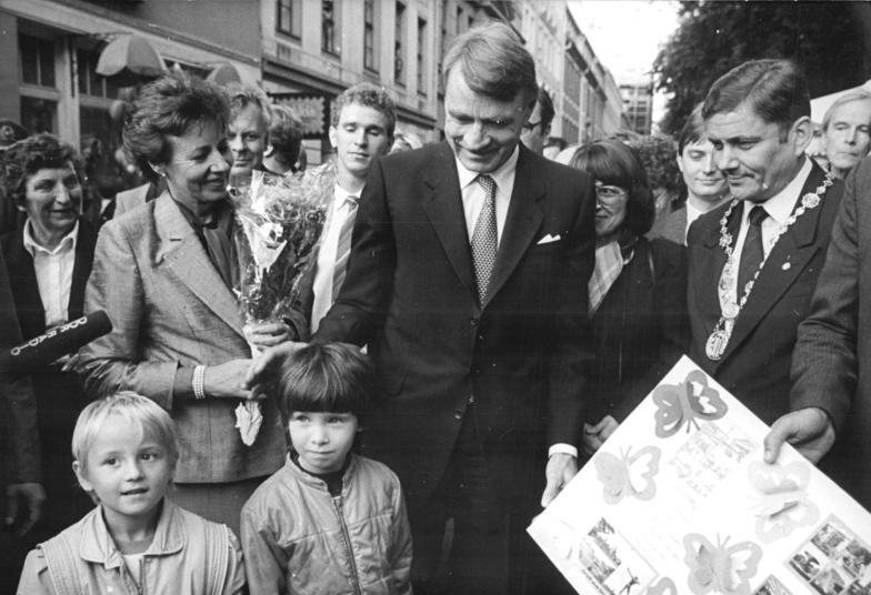 Mauno Koivisto, the president of Finland, (on the middle) in Dresden, German Democratic Republic on 30 September 1987. Mrs Tellervo Koivisto on the left and Wolfgang Berghofer, the lord mayor of Dresden, on the right.